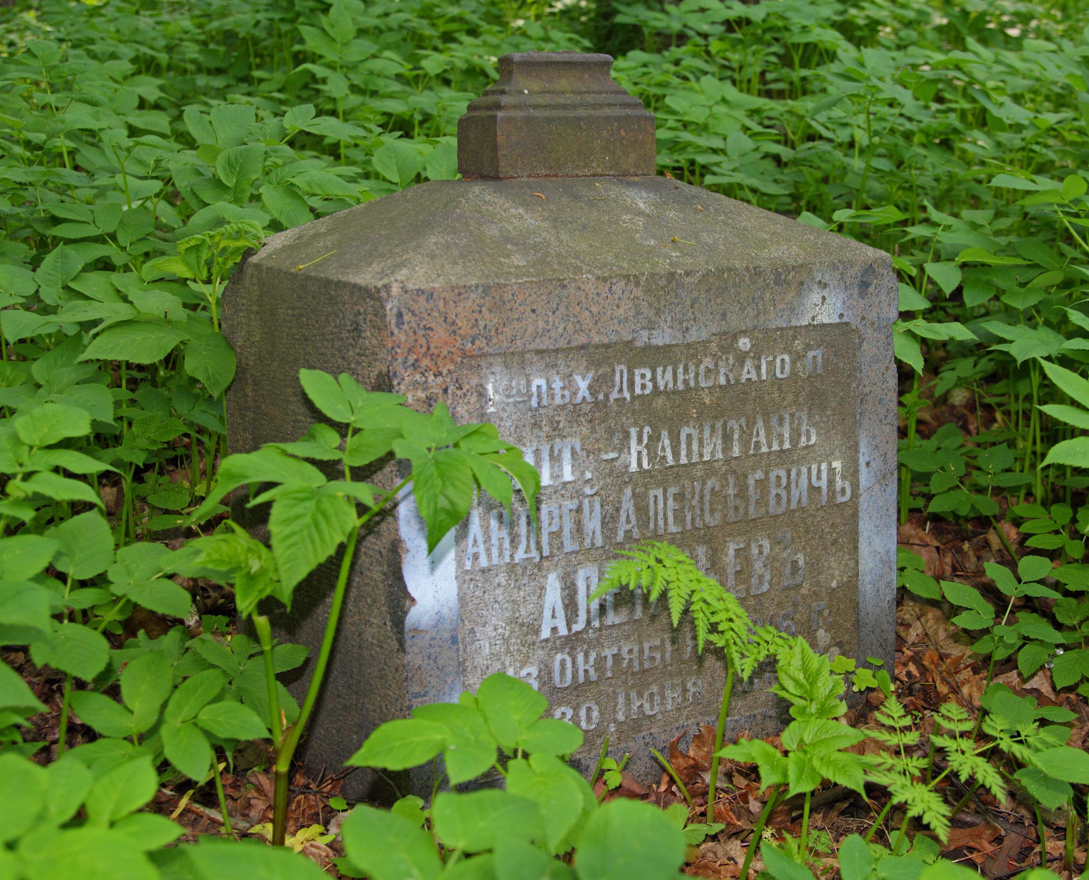 Vyborg (former Viipuri), Leningrad Oblast, Russia. Old Finnish/Russian Sorvali Cemetery.